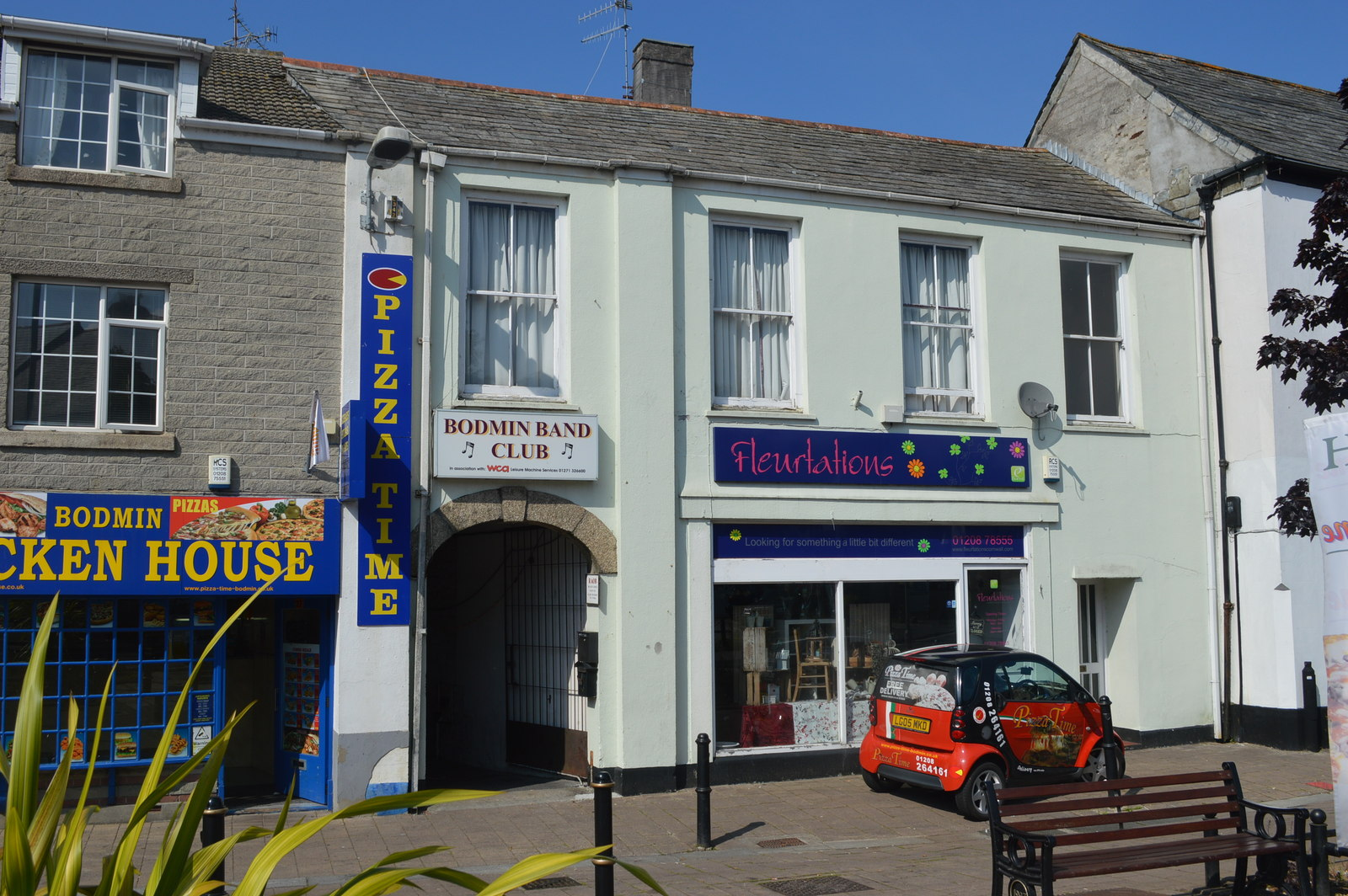 Bodmin Band Club - Honey Street, Bodmin